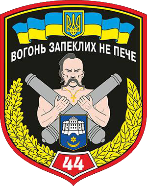 Shoulder sleeve insignia of the Ukrainian Army 44h Artillery Brigade